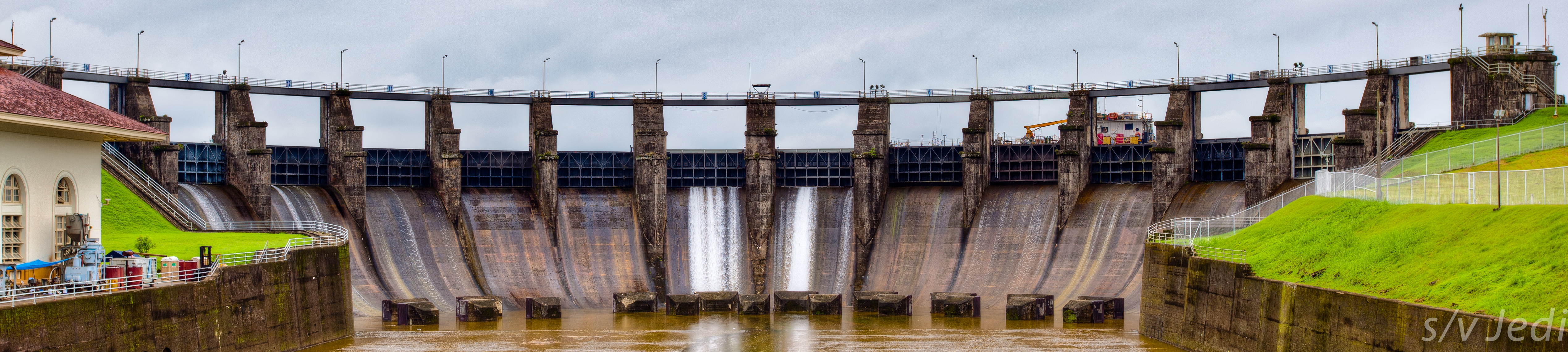 Panorama of the Gatun dam spillway